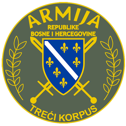 Treći korpus armije republike Bosne i Hercegovine